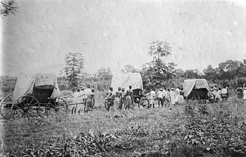 Togo, Baumwoll-Transport Baumwoll-Transport/ Afrika-Togo